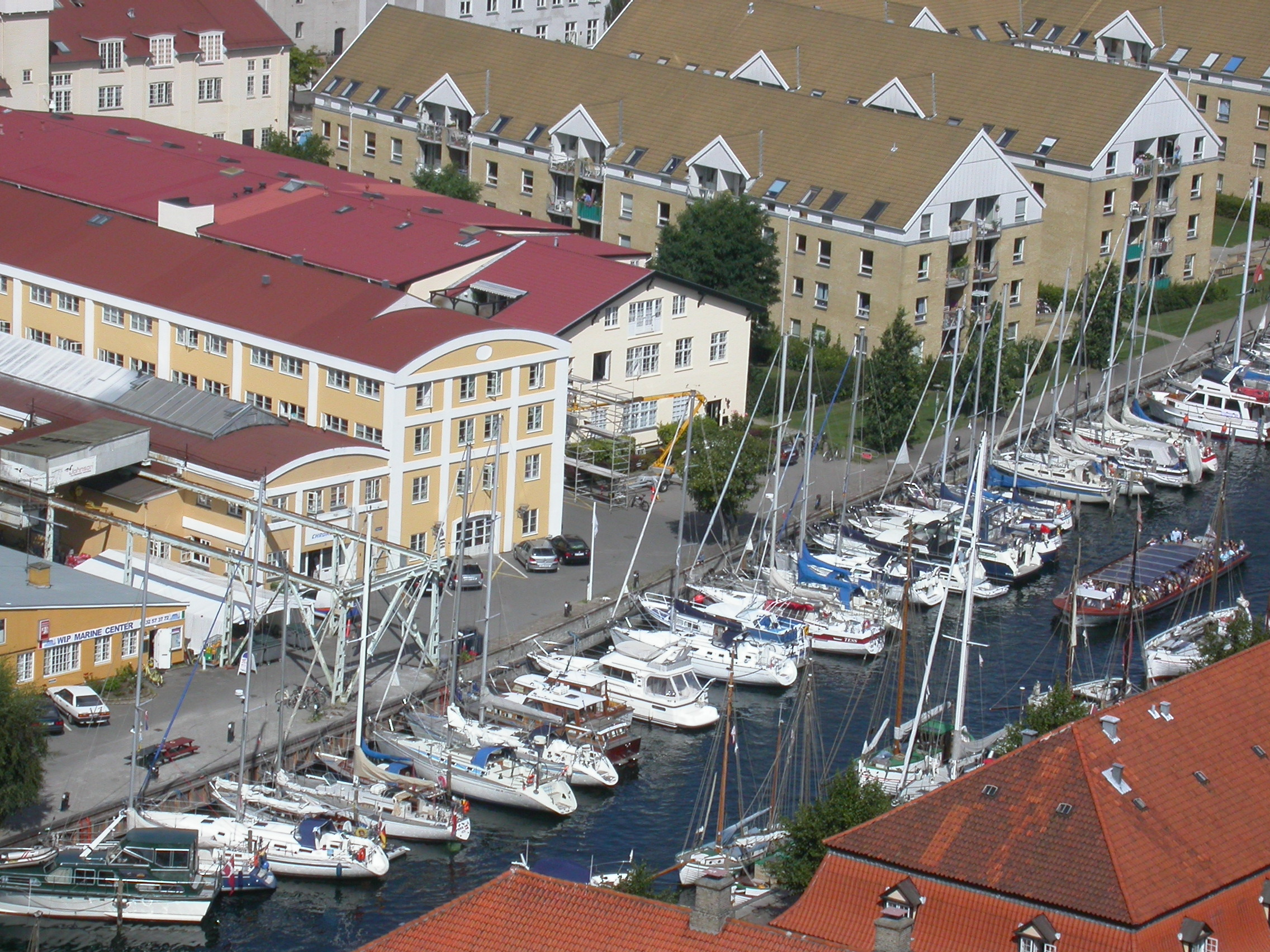 Christianshavns Kanal and Wilders Plads seen from the tower of Church of Our Saviour